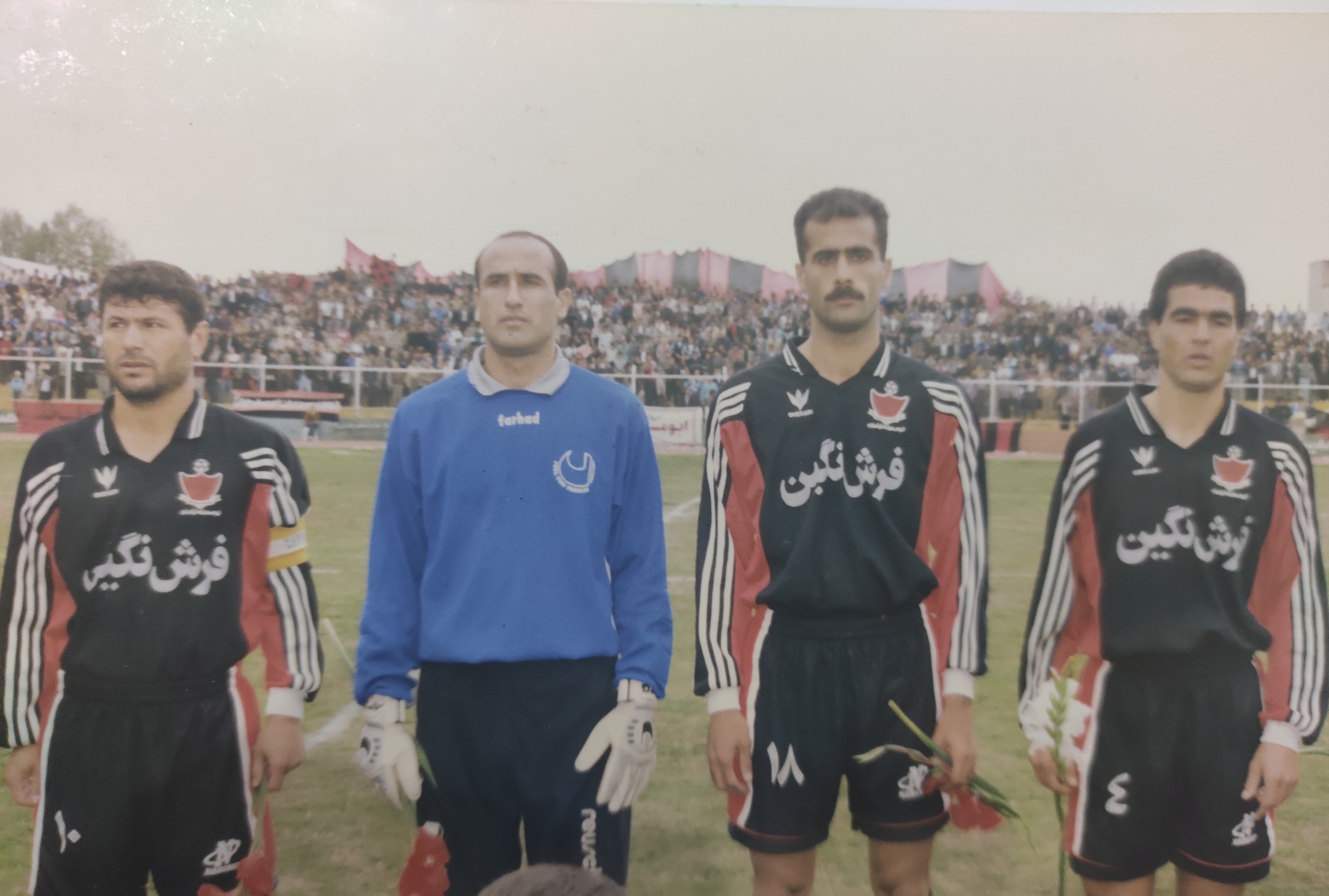 iran League 1